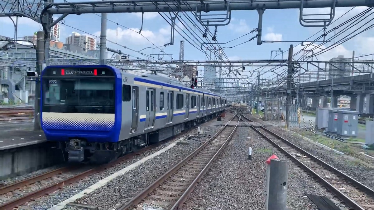 E235-1000 series set F-01 hauled by locomotive EF64 1030